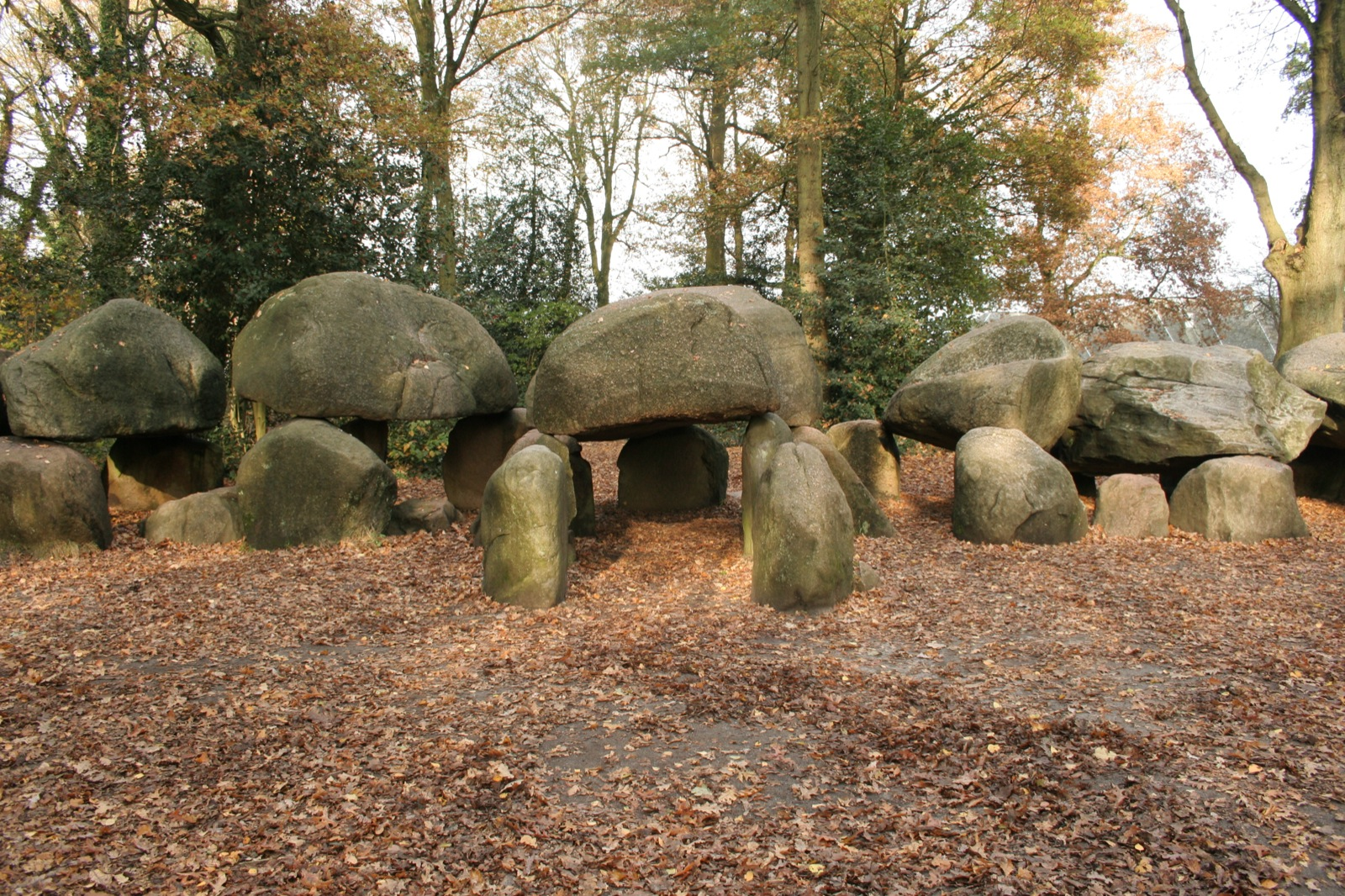 This is a hunebed - a giant bed, an ancient burial site up to 5000 years old. very impressive. There are around 54 of these sites around the Netherlands and more in Germany, this is the largest.